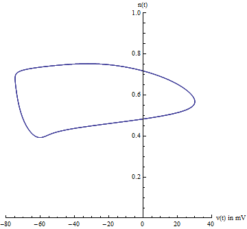 Hodgkin Huxley limit cycle in phase space. Voltage v(t) in millivolts and potassium gating variable n(t) (dimensionless).